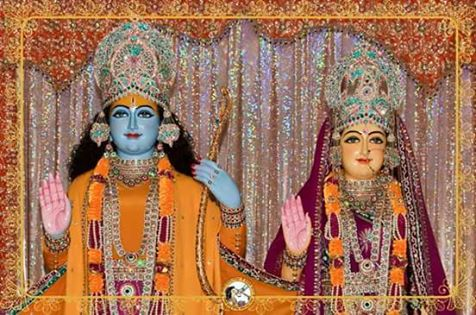 RamSita Darshan in Bhakti Mandir